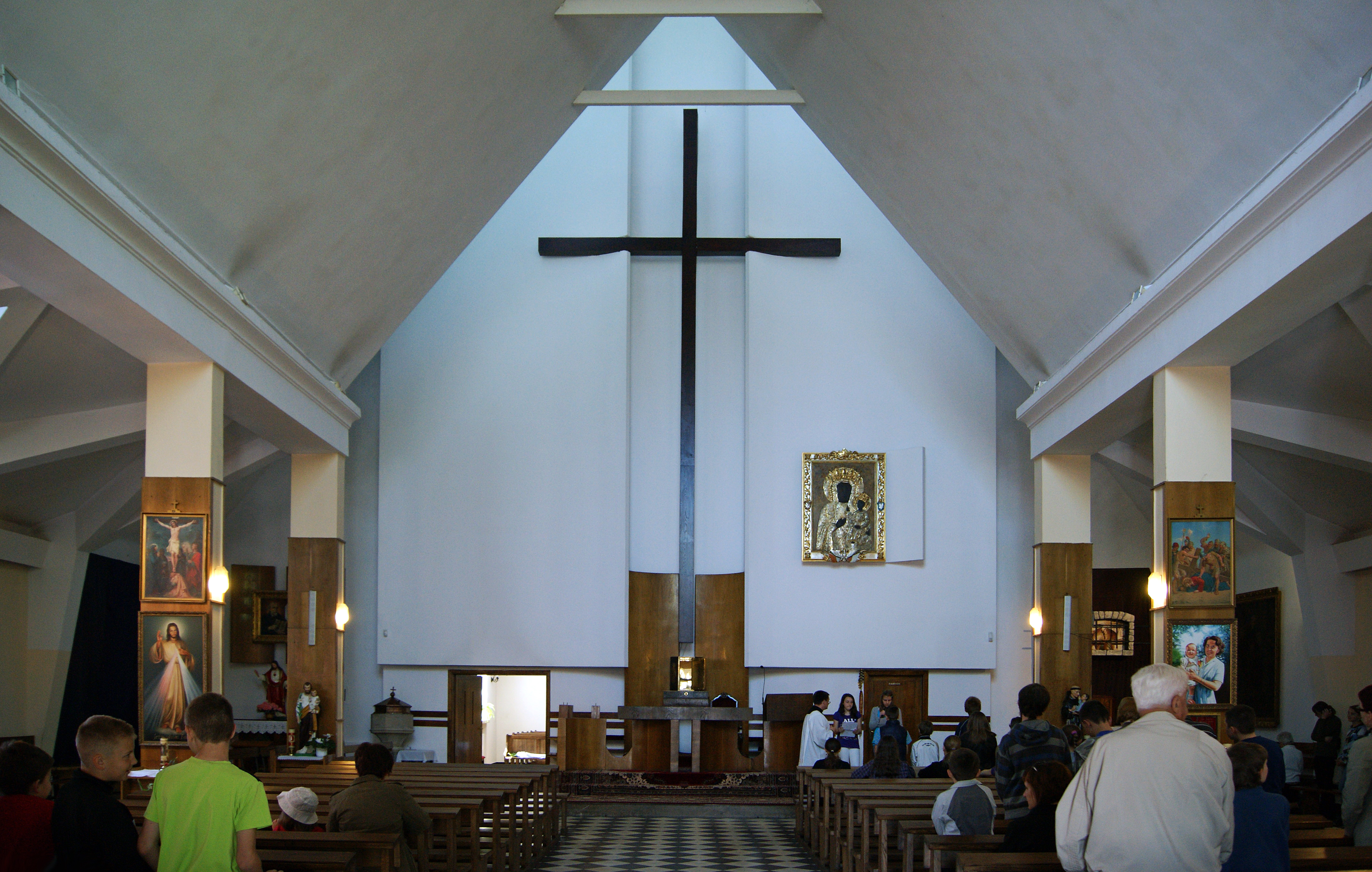 Holy Name of Mary Church (inside), 1 Dzielskiego street,Krakow,Poland